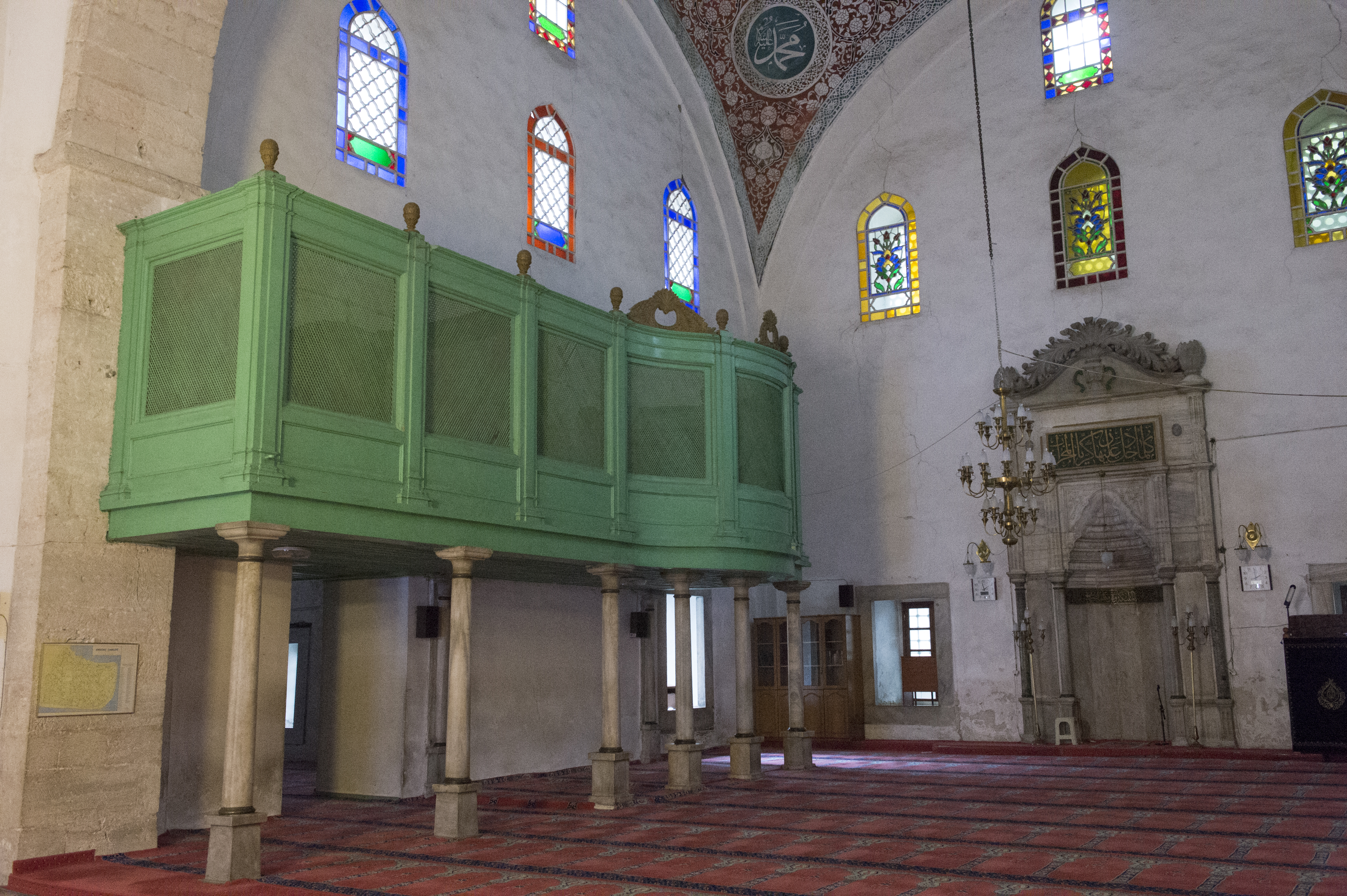 This is a mosque that is very early (1462, nine years after the conquest), and accordingly its plan resembles that of a mosque in Bursa, the Murat I. Two square rooms, each with its dome, are combined into one large space, with on each side three small rooms. The green consctrution is probably a hünkar mahfili, a part where a sultan could attend withotu being seen. In the late 2010's it was being restored.